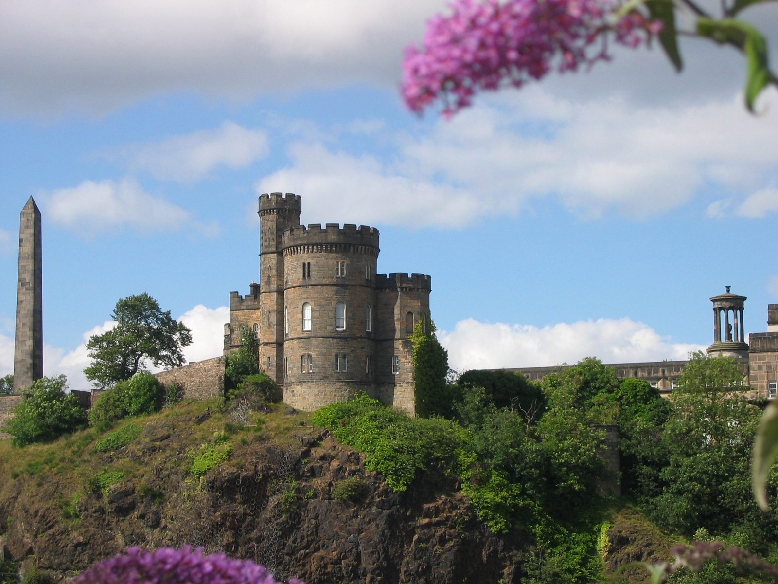 view towards the Governor's House on Calton Hill. This building is all that remains of the old Calton Jail.